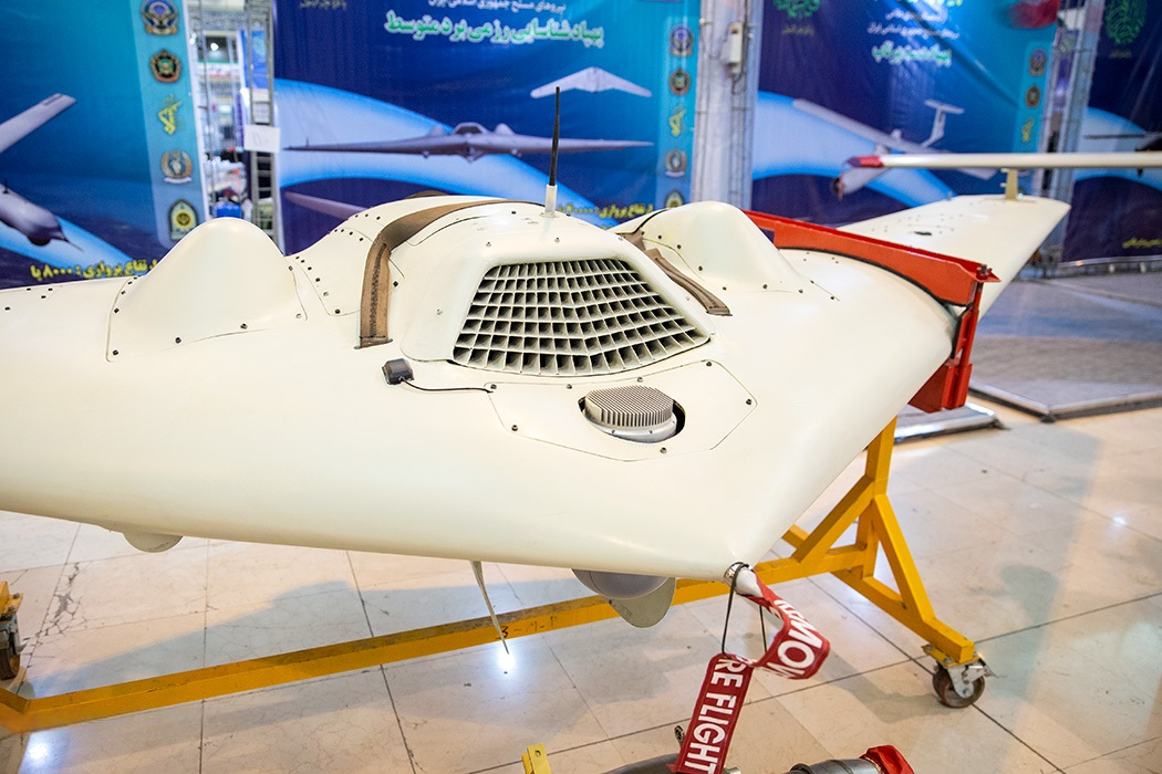 Saegheh-2 UAV at the Eqtedar 40 defence exhibition in Tehran.